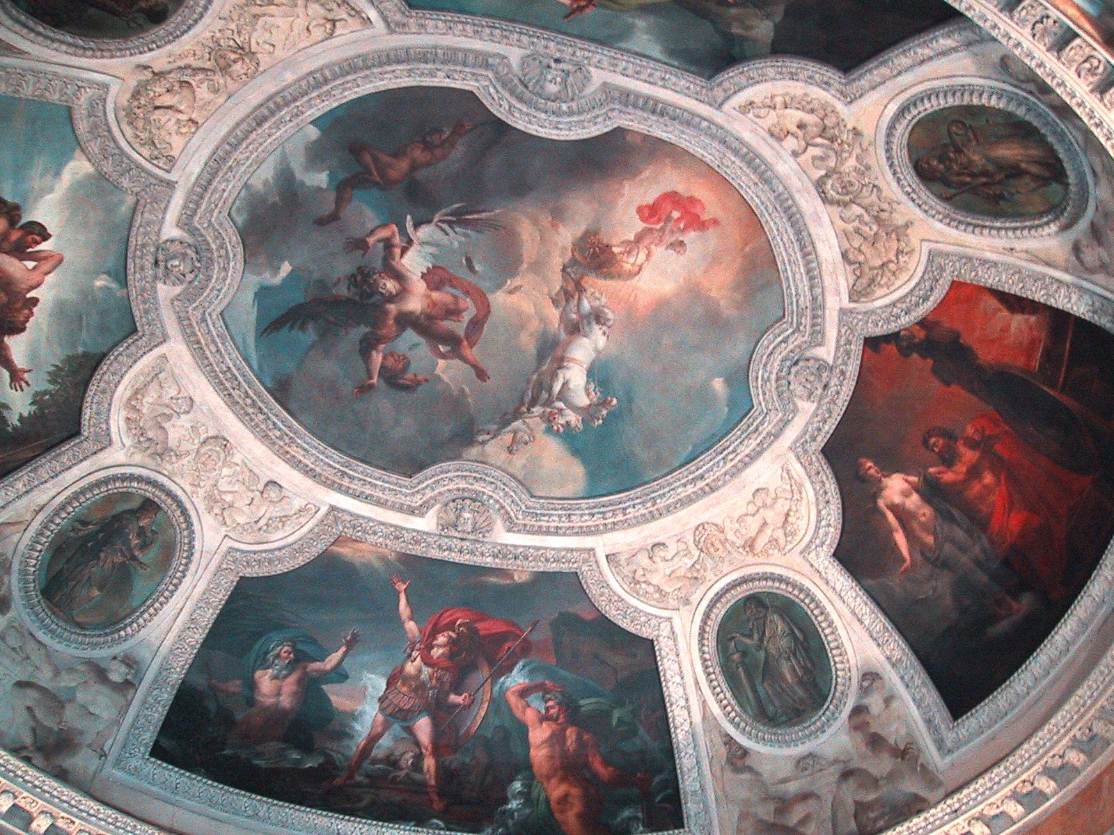 Ceiling of the Rotunda of Apollo, in the Louvre museum, in Paris. In the center, "The Sun. The fall of Icarus", from Merry-Joseph Blondel, 1819